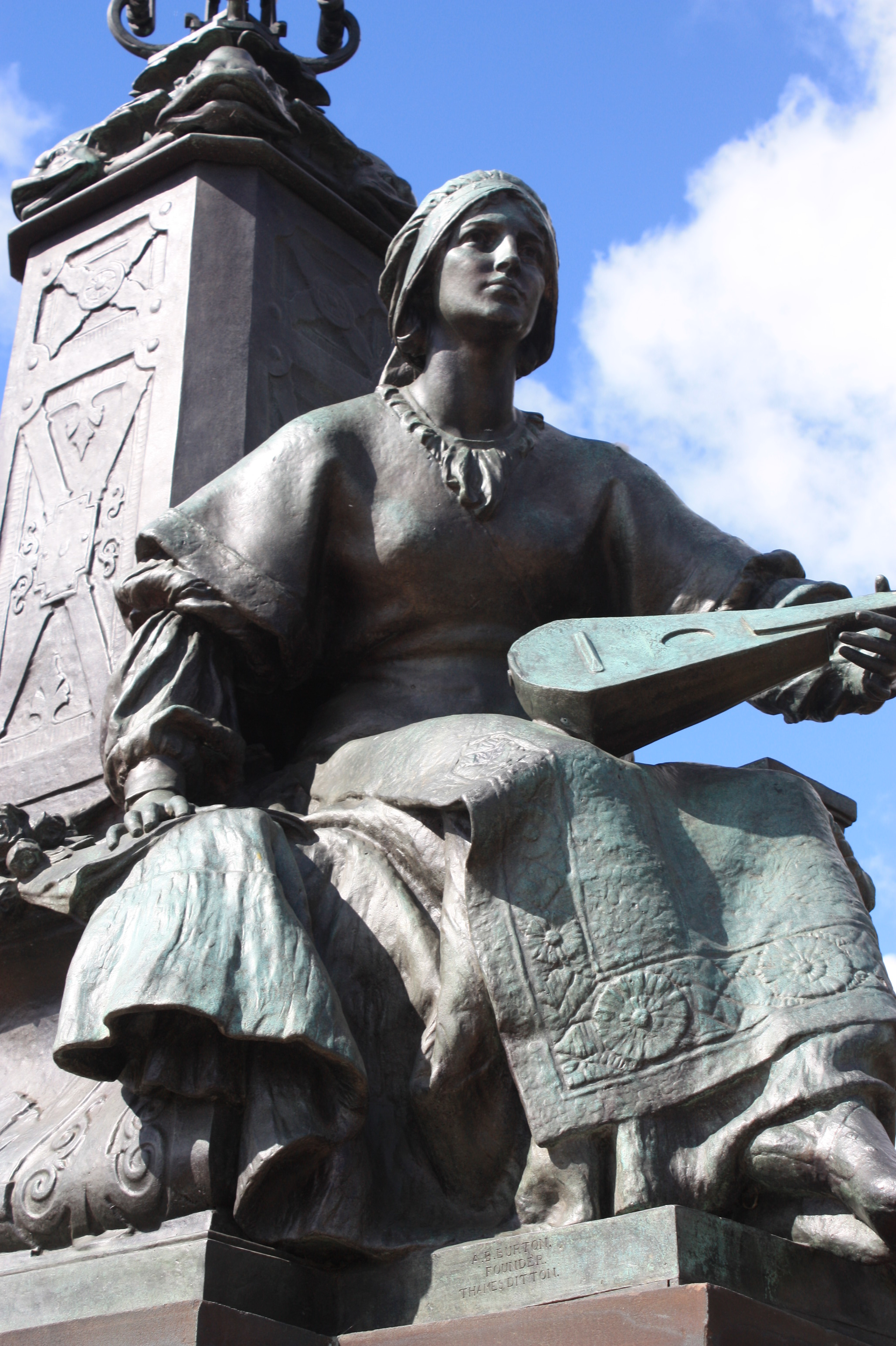 Music, figure on Kelvingrove Bridge by Paul Montford